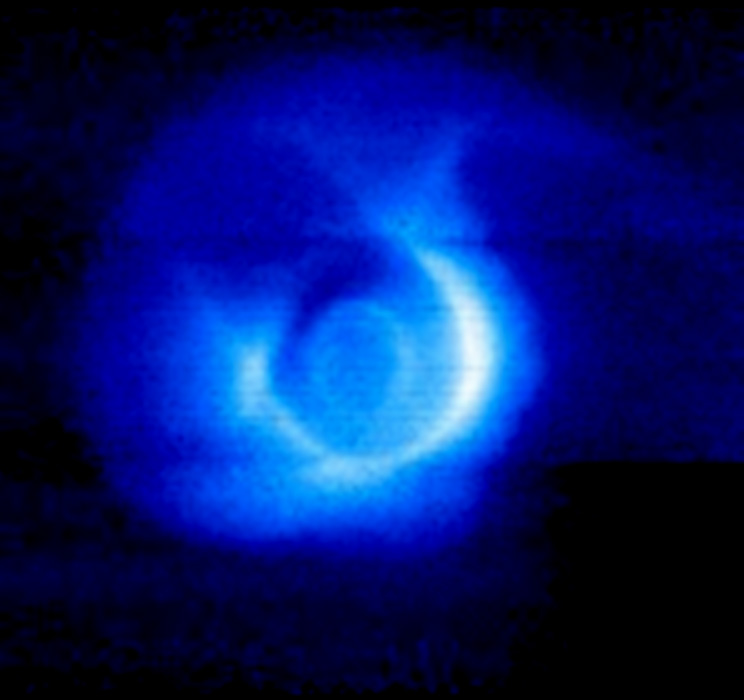 The Extreme Ultraviolet imager (EUV) instrument on board IMAGE captured this picture of the ultraviolet glow from relatively cold plasma surrounding our planet. A hook-shaped "tail" of plasma, near the top-right, streams toward the Sun. The small, faint circle near the center of the image traces ultraviolet radiation from aurora borealis (or "Northern Lights"). The "relatively cold plasma" is the Earth's plasmasphere. The small hook at left, unfortunately cited as a "tail" in the NASA press release, is not a magnetic tail like the Earth's huge magnetotail, but a relatively small peeling off of material from the plasmasphere. For full description, See also the discussion page.